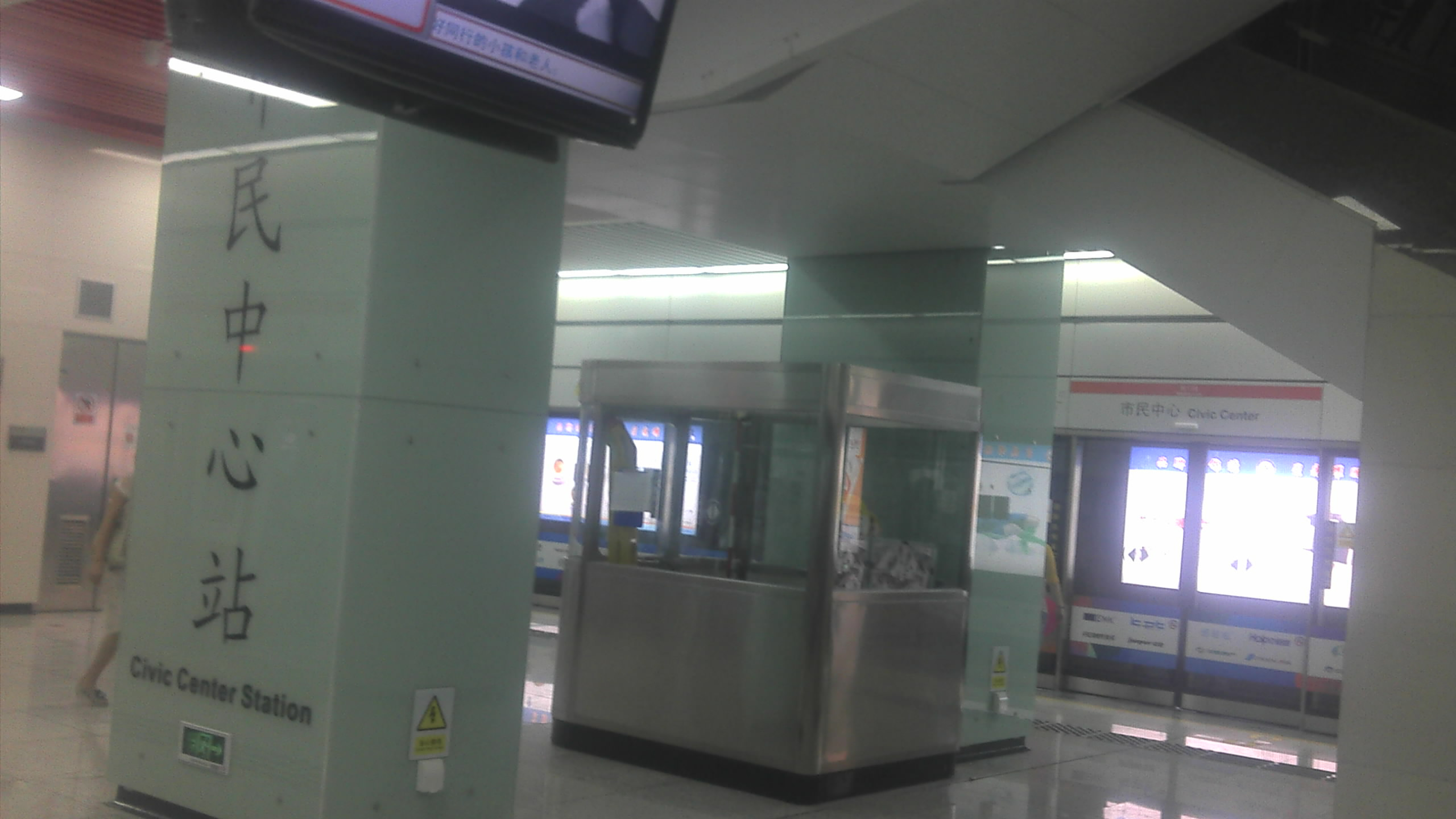 This photo was taken as Oct 16, 2011.